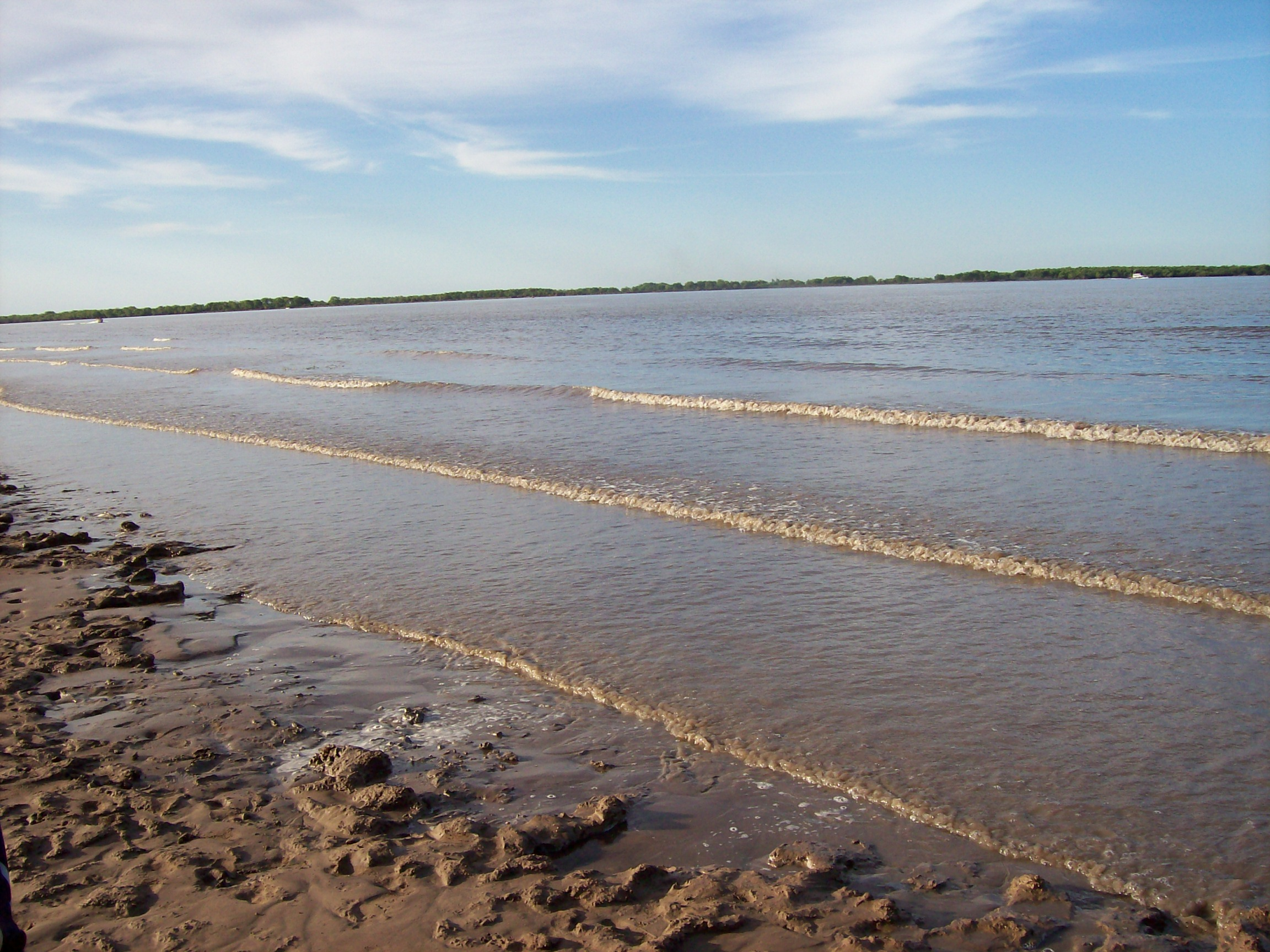 Beach of Ramallo and Paraná River, Buenos Aires Province, Argentina.